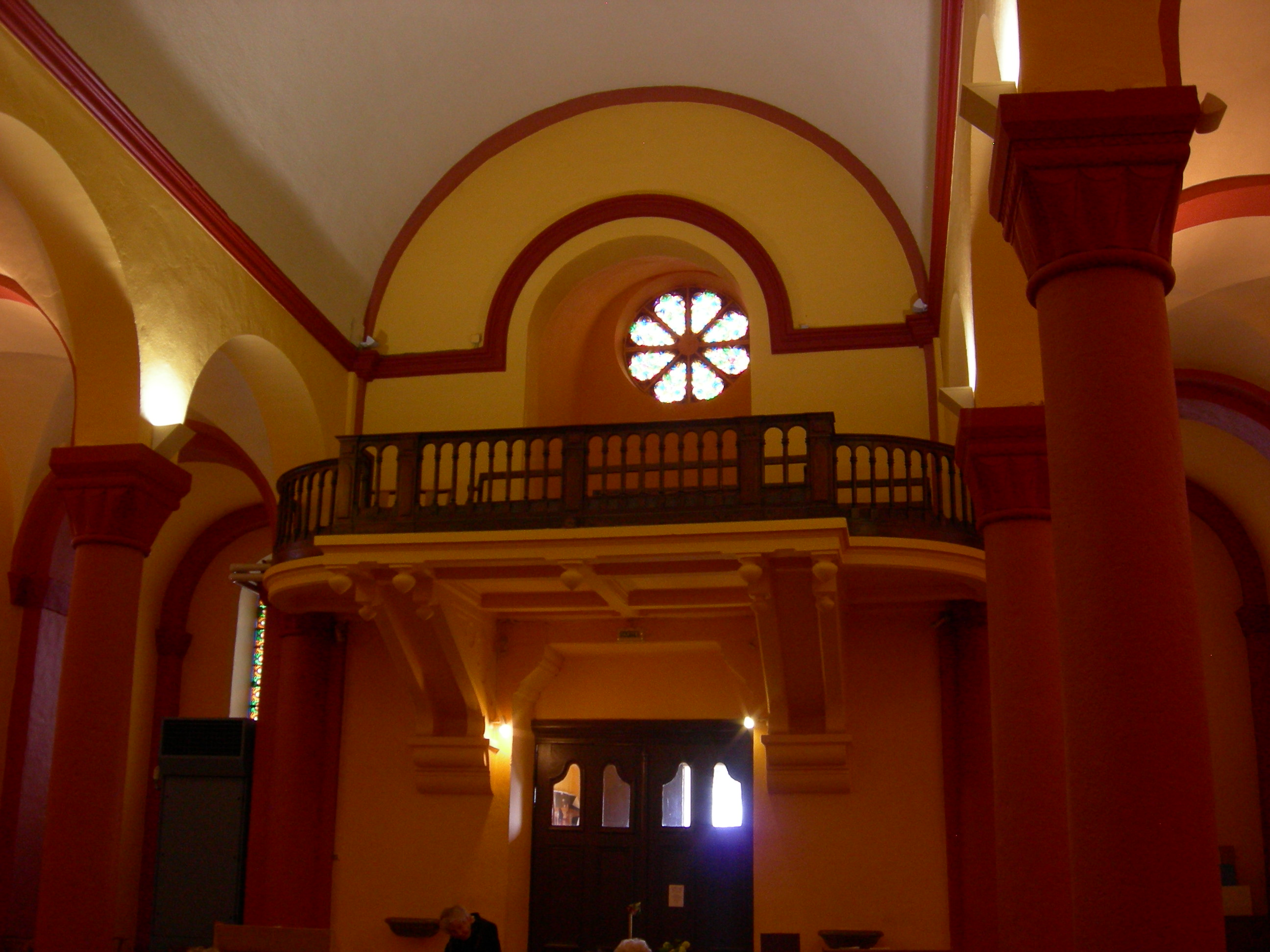 saint priest church